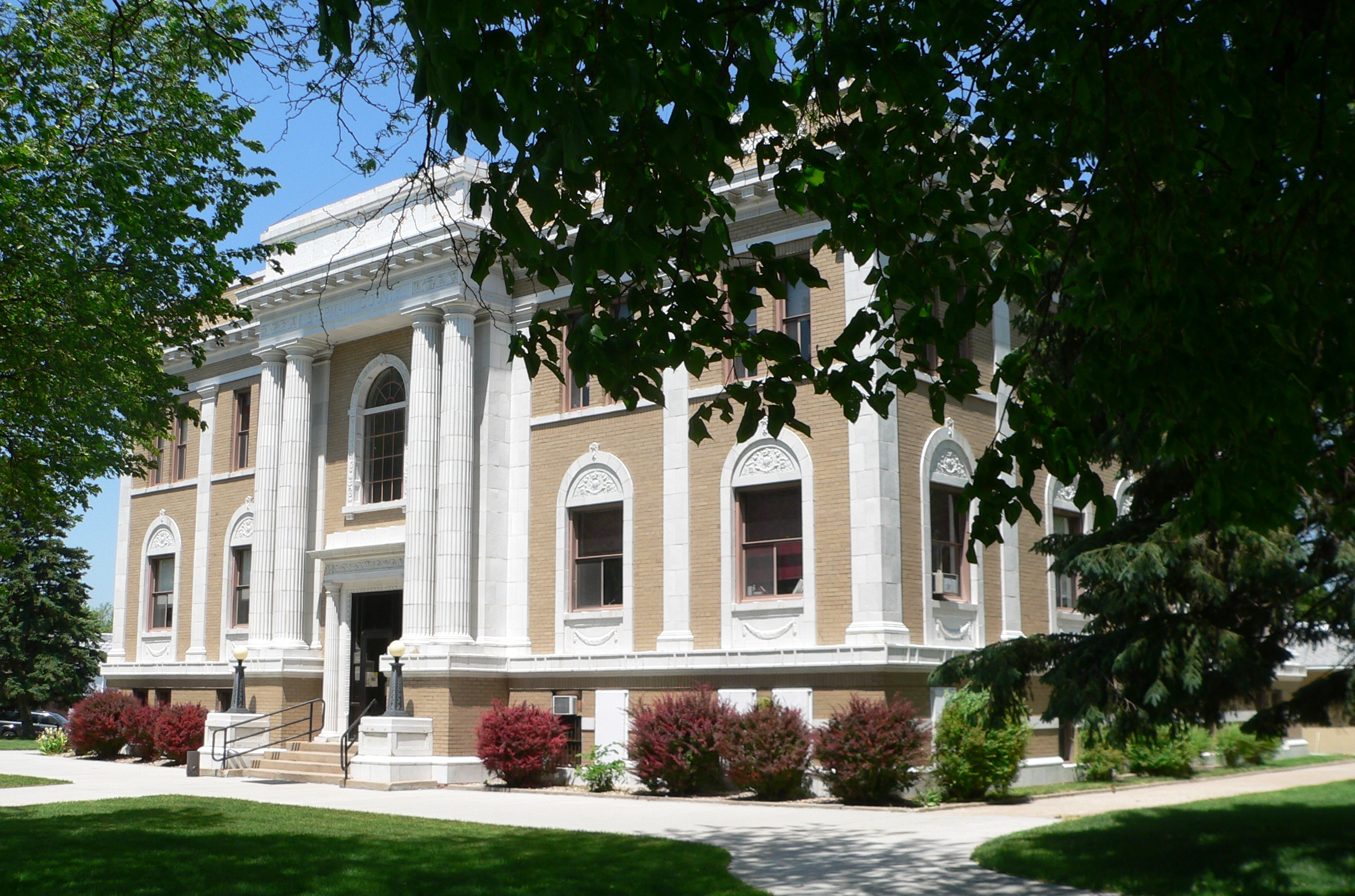 Sherman County Courthouse in Loup City, Nebraska; seen from the southeast. The Beaux-Arts building was constructed in 1920. It is listed in the National Register of Historic Places.